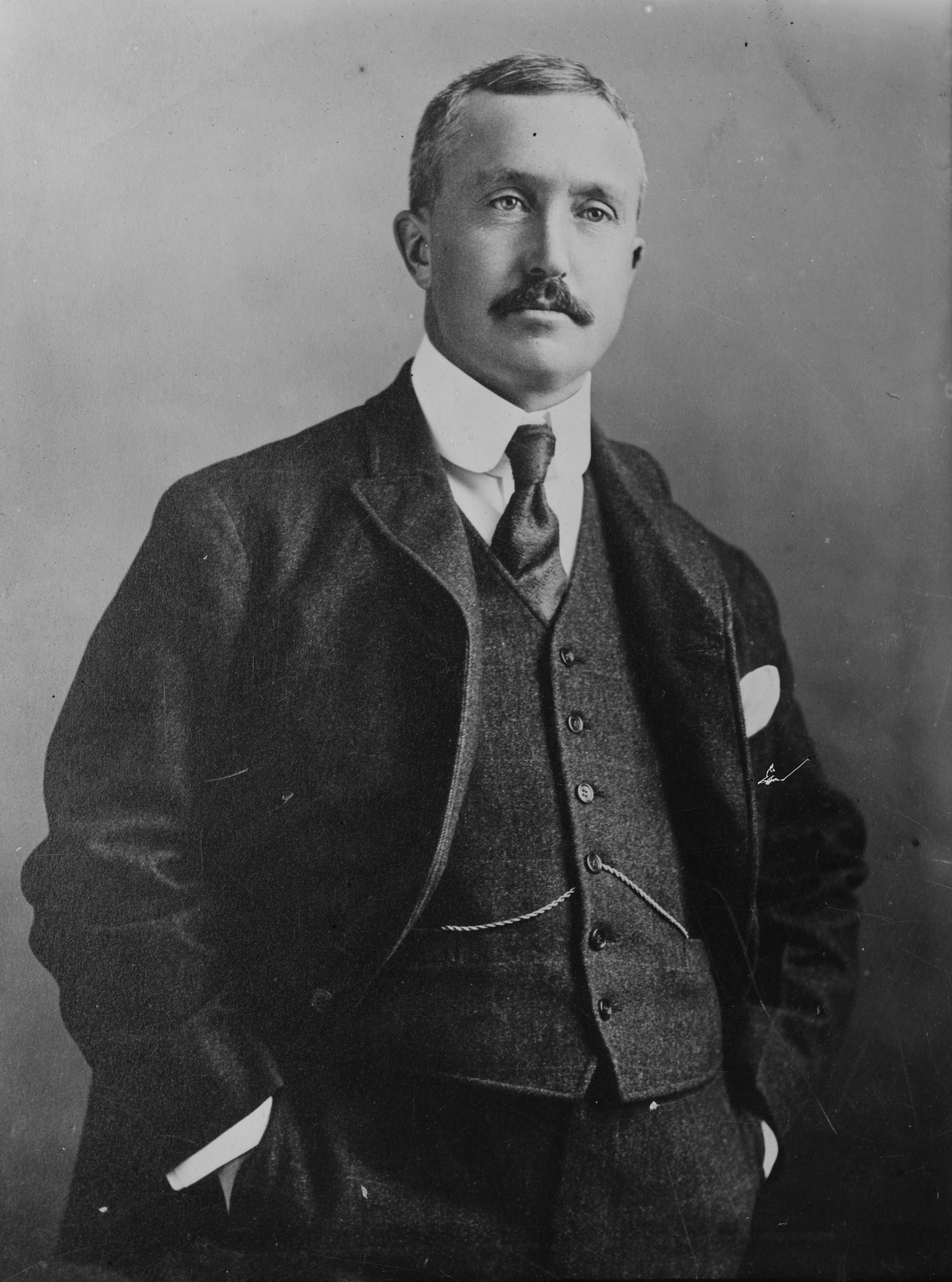 Title: Chas. Denby Abstract/medium: 1 negative : glass ; 5 x 7 in. or smaller.